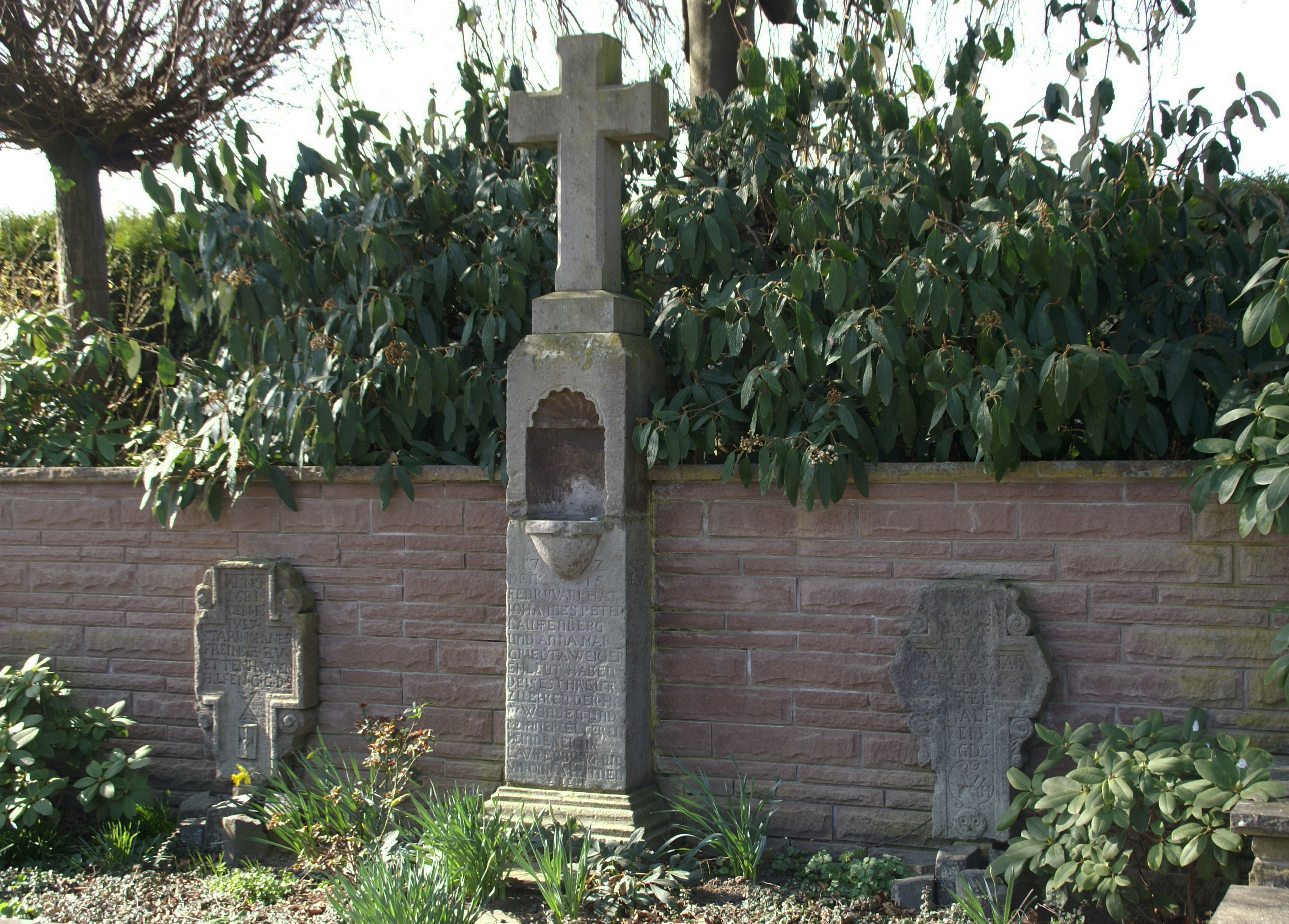 Wayside cross at the boundary of Oberscheuren and Niederscheuren